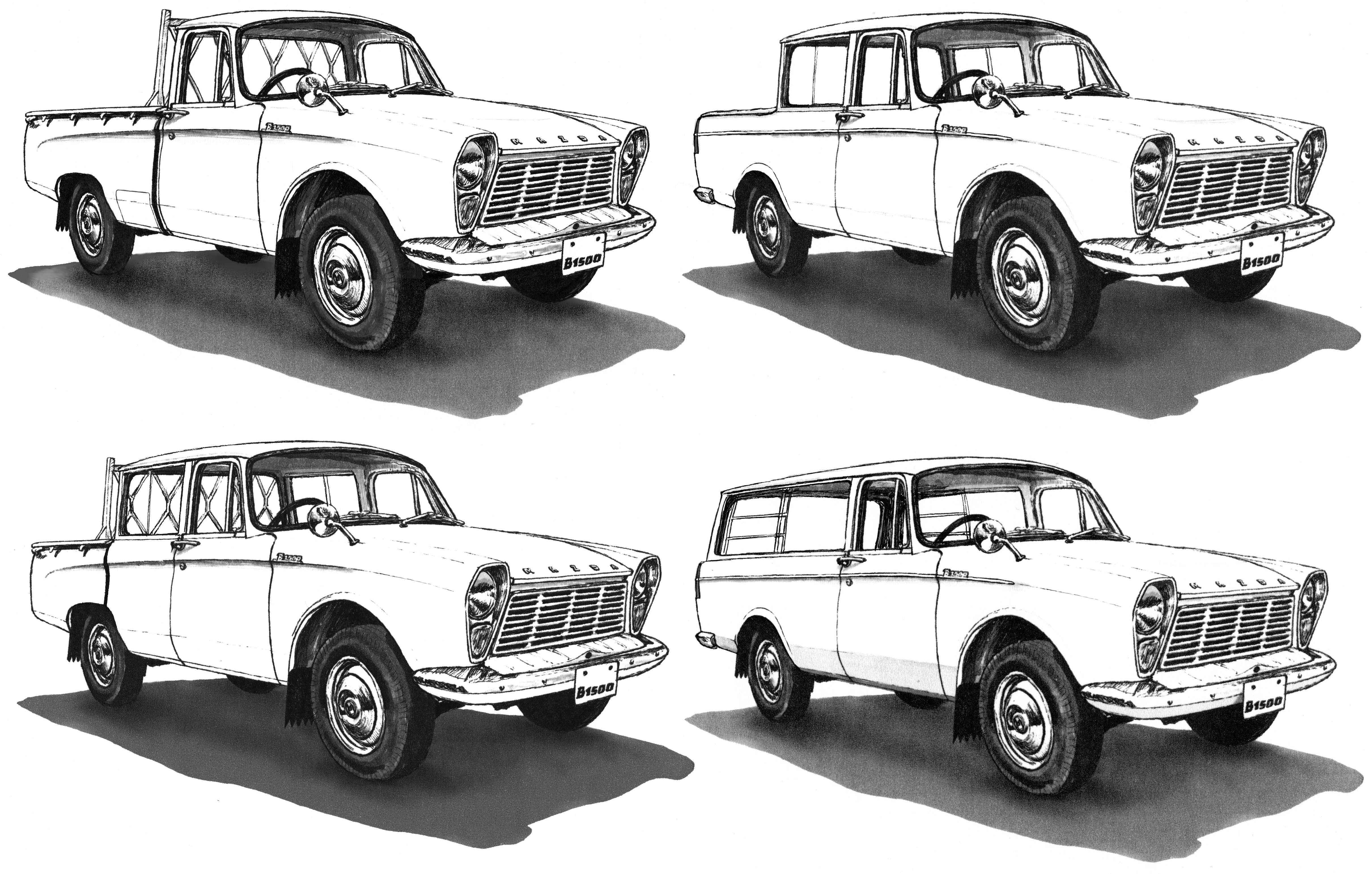 All four bodystyles of the BUA series Mazda B1500.